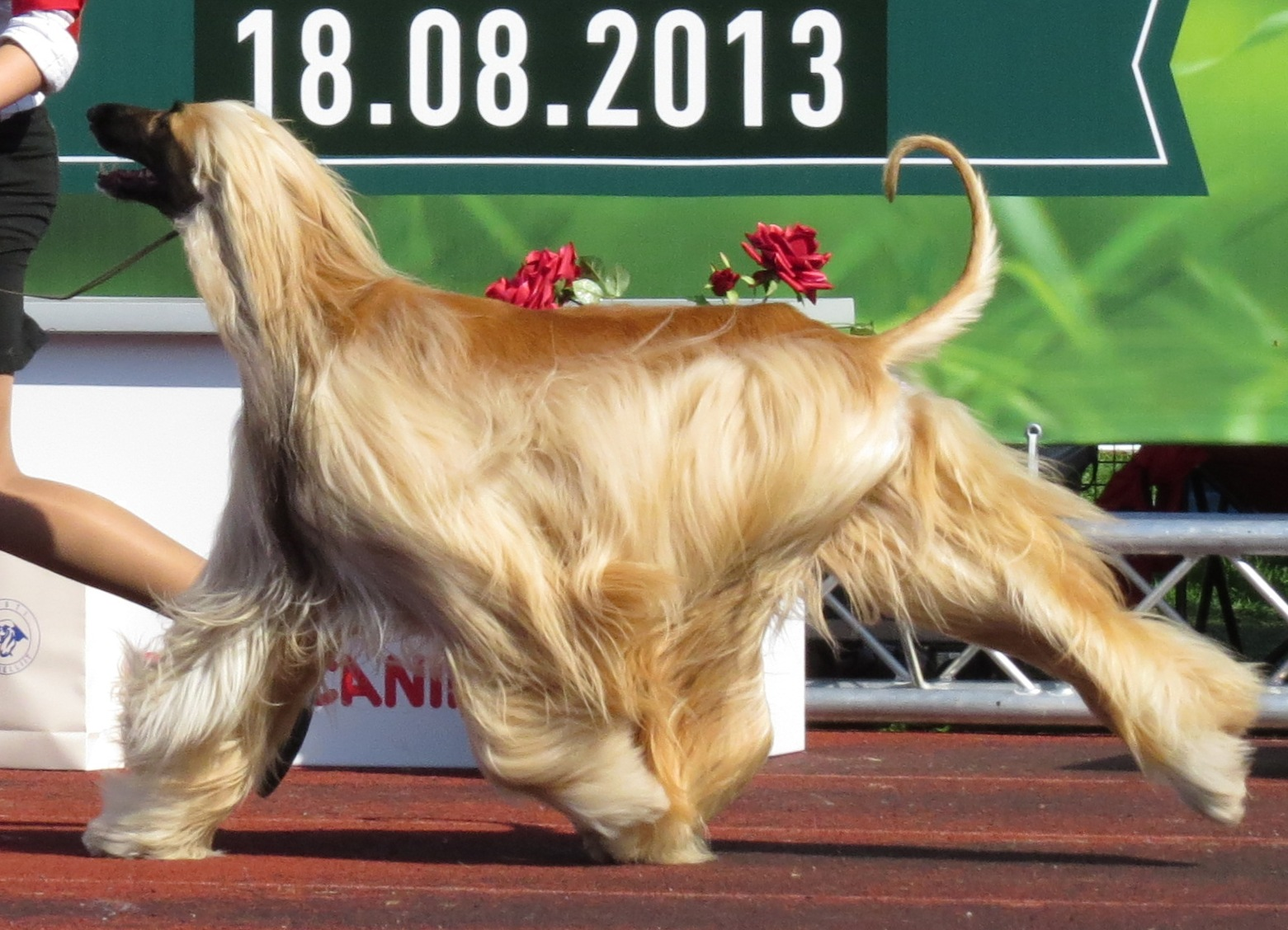 Afghan Hound in Tallinn duo CACIB, 17-18 Aug 2013, handler competition